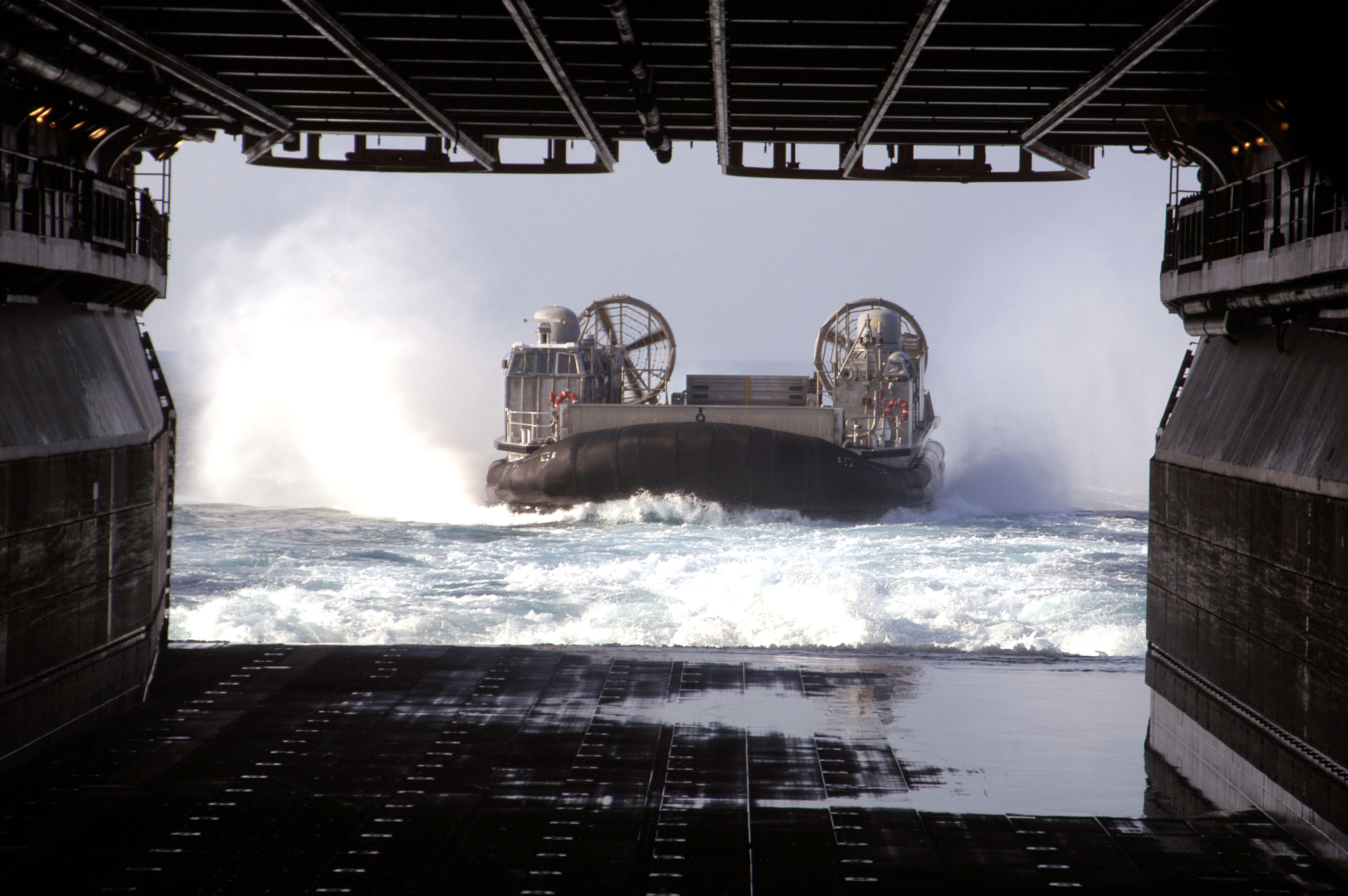 Gulf of Mexico (Aug. 31, 2005) – A Landing Craft Air Cushion (LCAC) assigned to Naval Surface Warfare Center, Panama City, Fla., approaches the stern gate of the amphibious assault ship USS Bataan (LHD 5) as part of the disaster relief efforts along the Gulf Coast. Bataan is participating in humanitarian assistance operations led by the Federal Emergency Management Agency (FEMA) in conjunction with the Department of Defense. Bataan has been tasked to be the Maritime Disaster Relief Coordinator for the Navy’s role in the relief efforts. U.S. Navy photo by Photographer's Mate Airman Pedro A. Rodriguez (RELEASED)